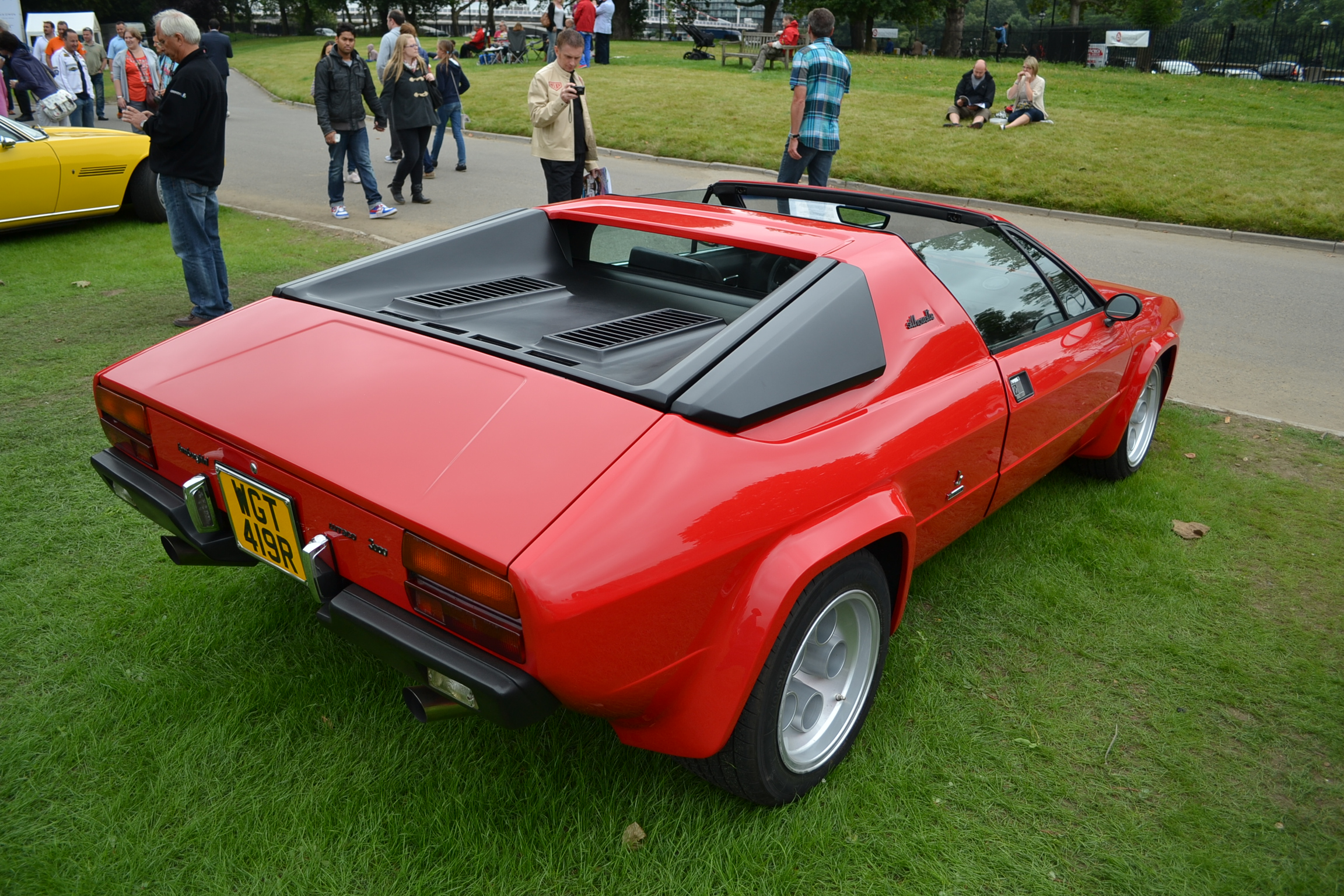 Chelsea Auto Legends 2012